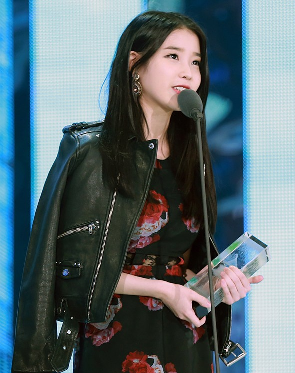 IU at Melon Music Awards, 13 November 2014